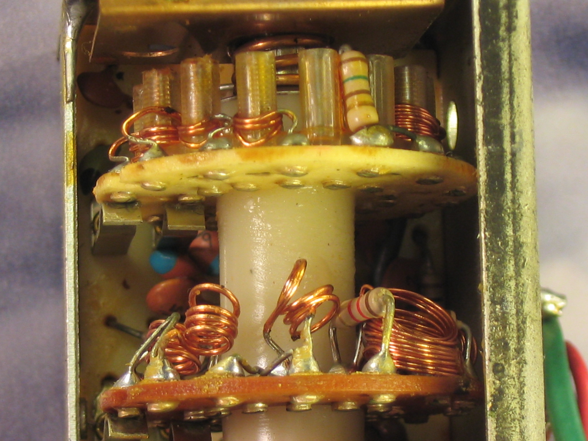 Sectioned UHF radio tuner